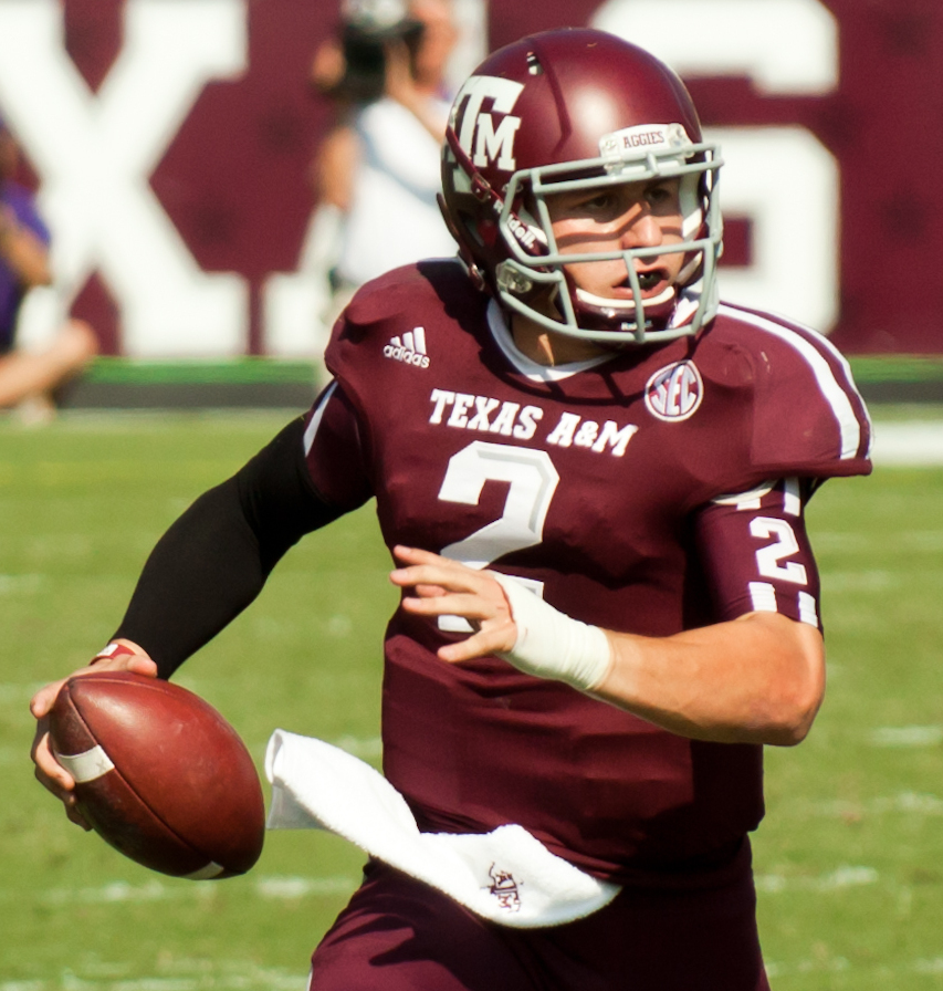 Texas A&M quarterback Johnny Manziel playing against the LSU Tigers on October 20th, 2012 in Kyle Field in College Station Texas